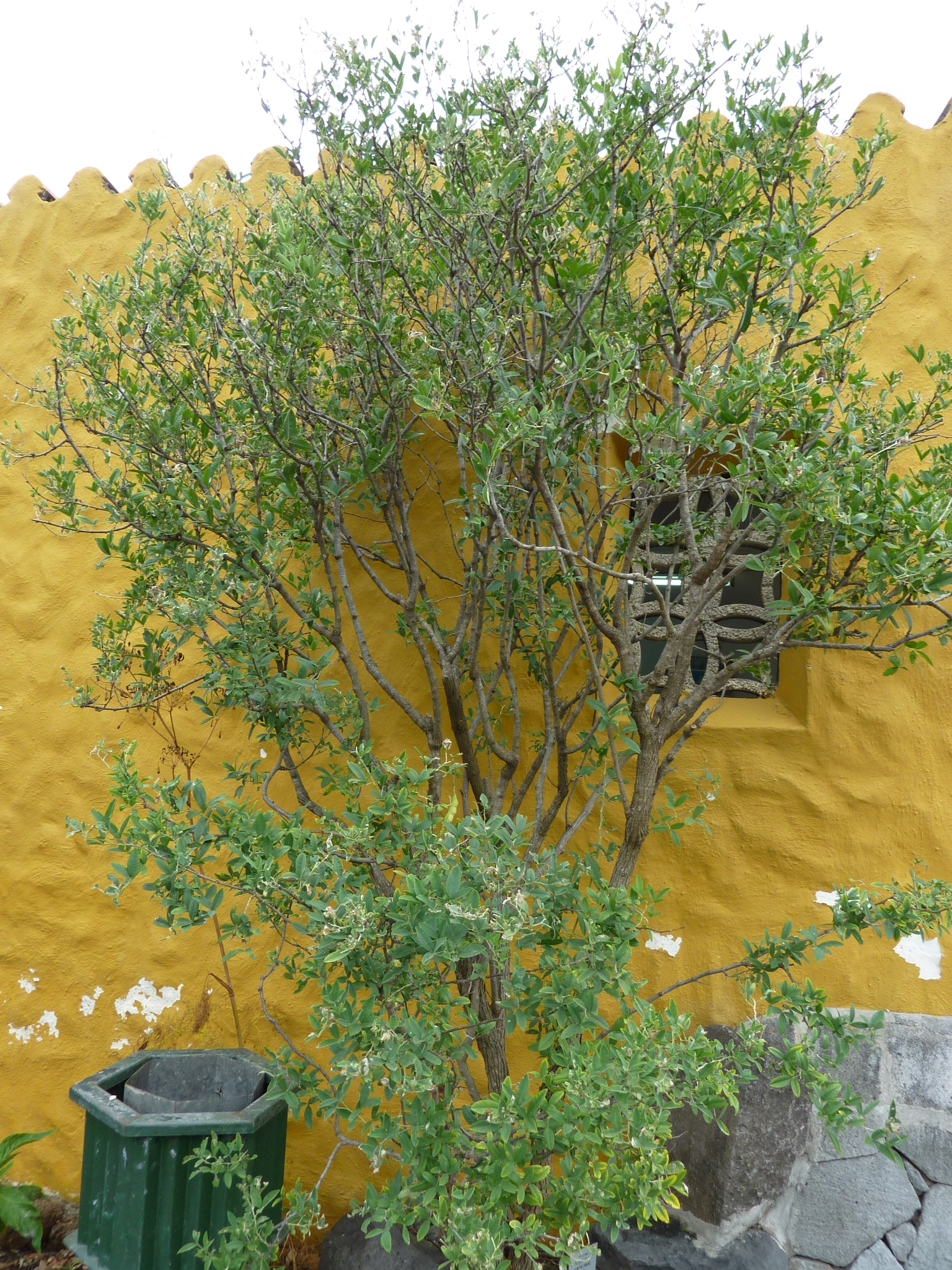 Anagyris latifolia in the Jardín Botánico Canario Viera y Clavijo.